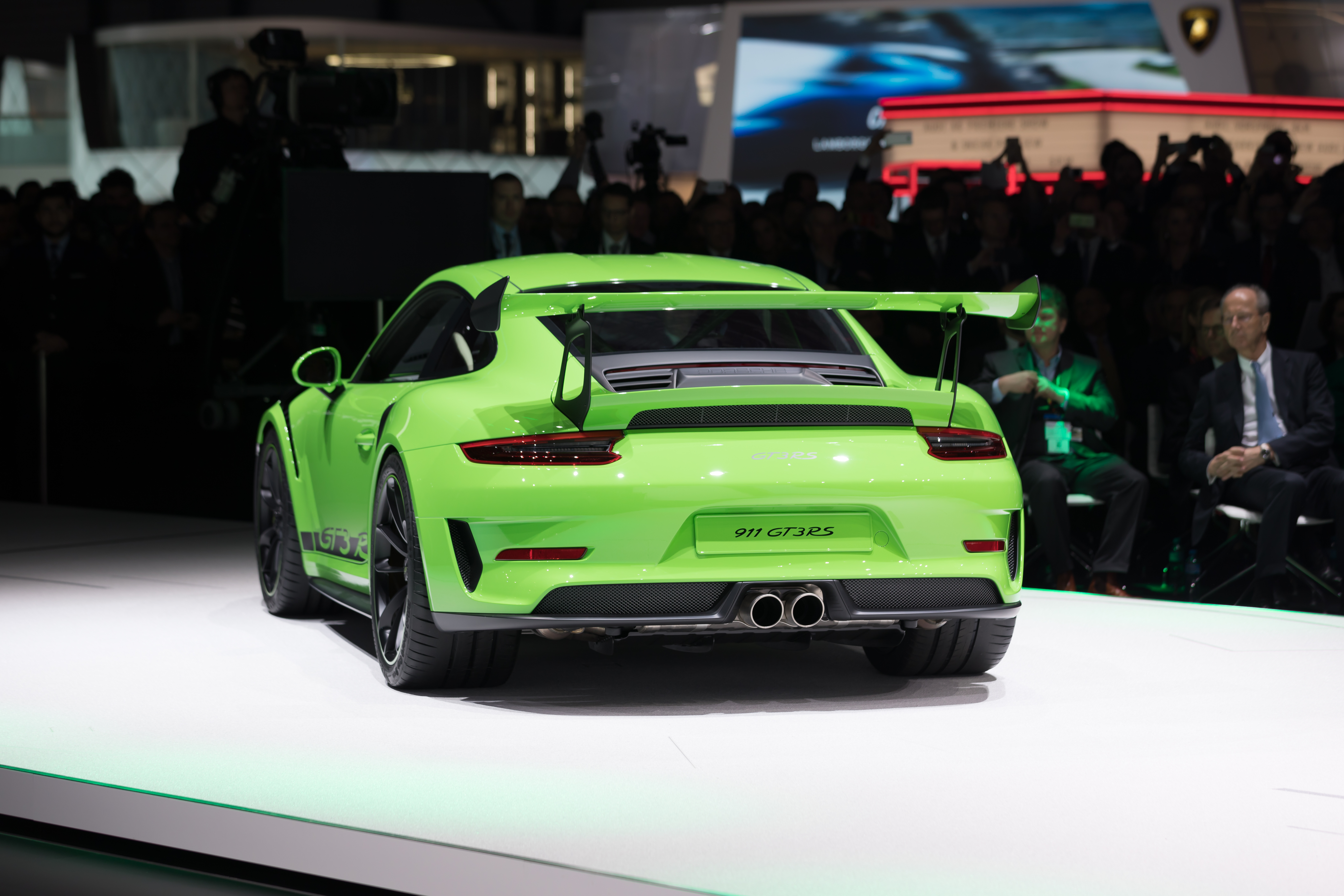 Geneva International Motor Show 2018, Porsche 911 GT3 RS